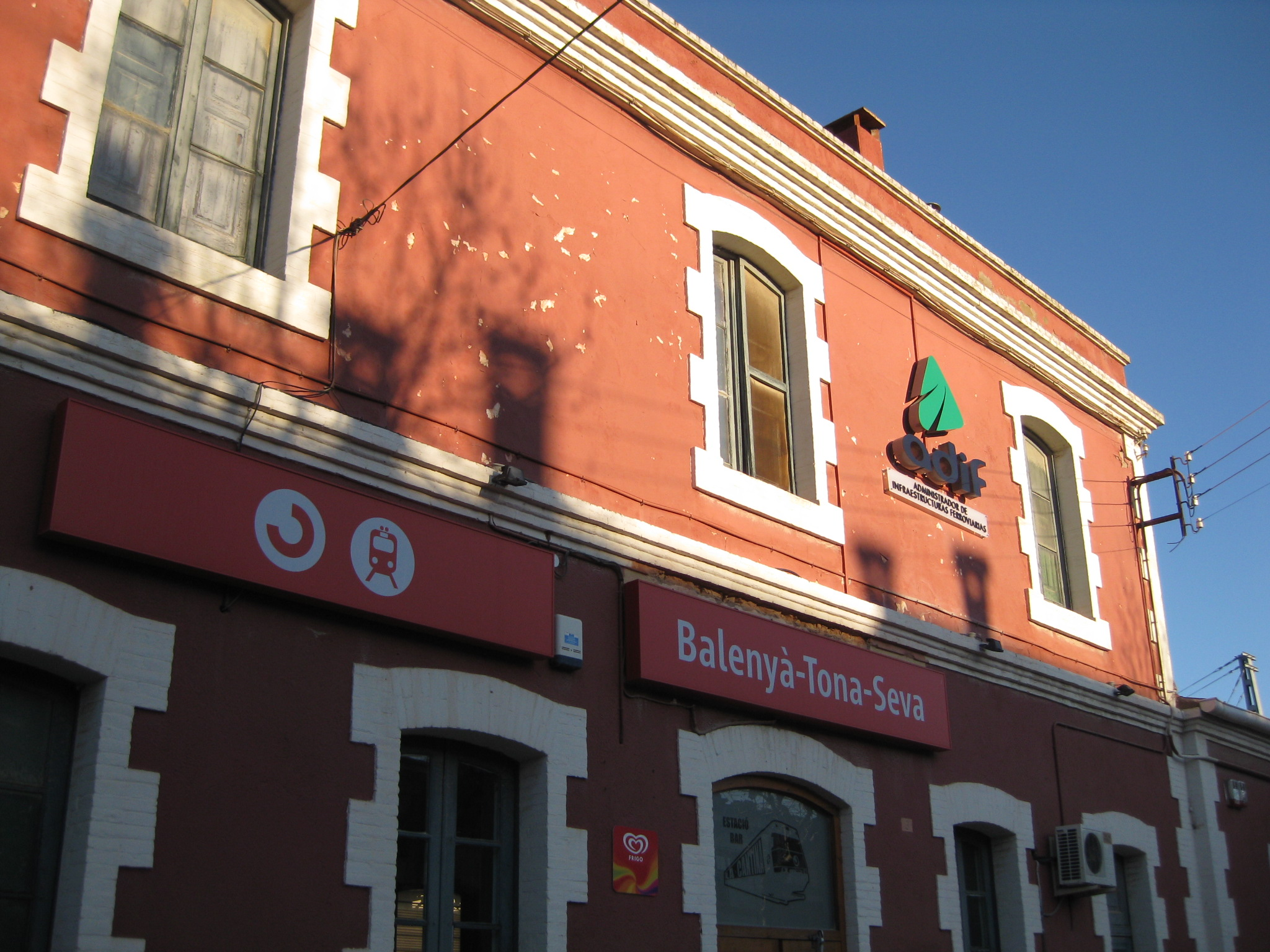 Railway station in Sant_Miquel_de_Balenya in Catalonia (Spain).